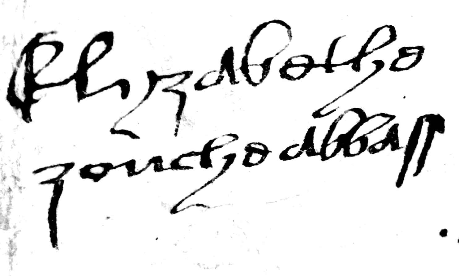 Signature of Elizabeth Zouche, the last abbess of Shaftesbury, as it appears on the deed of surrender of 1539.